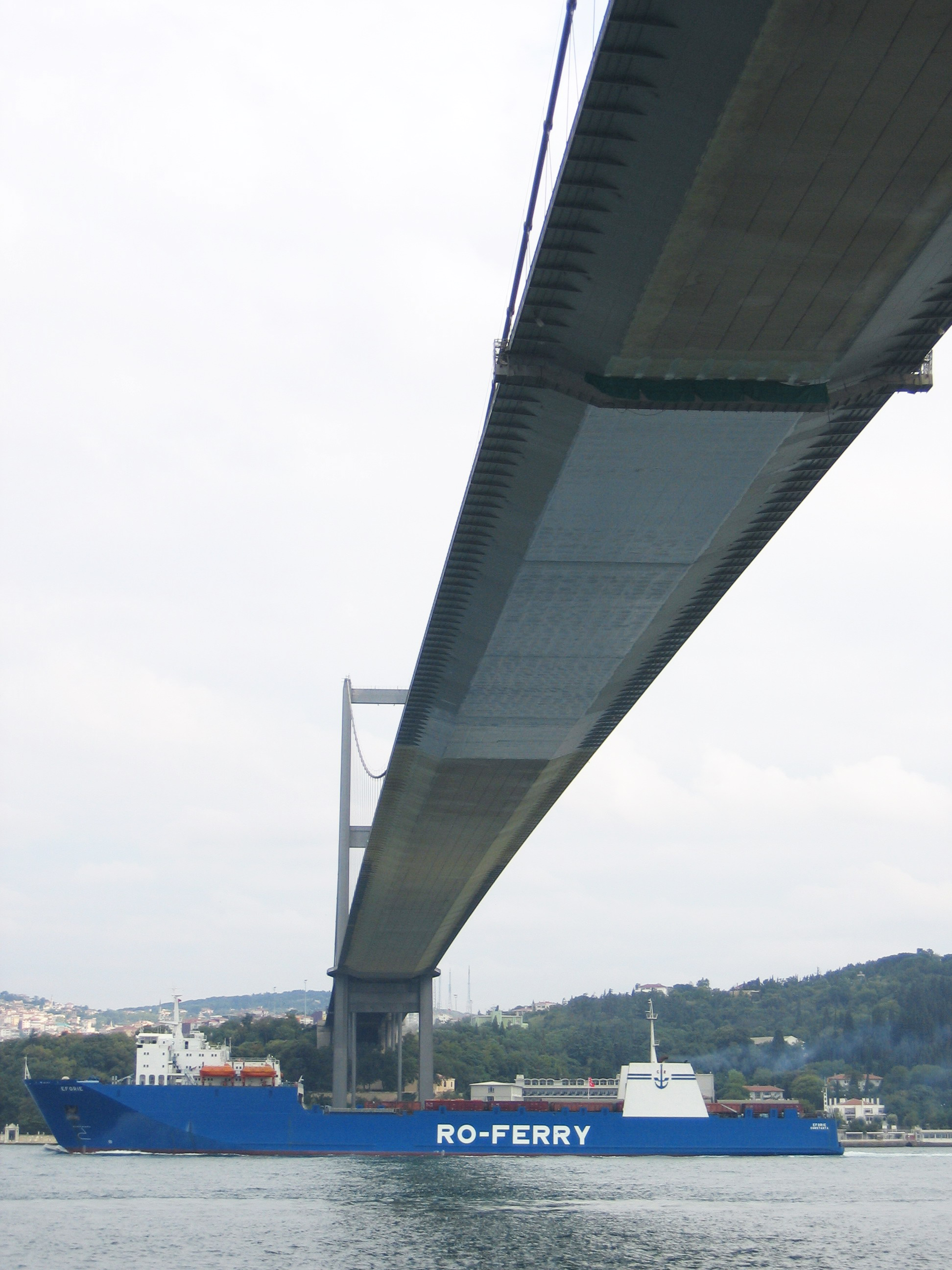 Ro-Ferry Eforie Fatih Sultan Mehmet Bridge